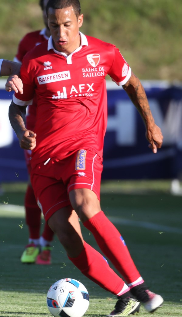 Léo Lacroix